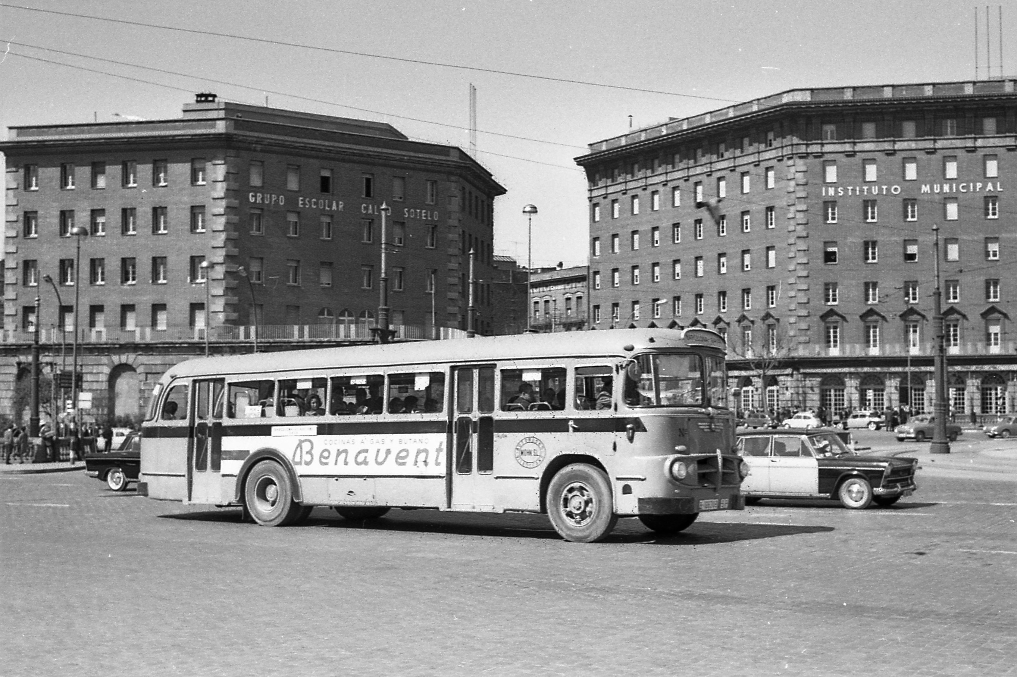 The bus number 34 of the company Mohn S.L., a Pegaso of unknown model and bodywork, in the Plaza de España in Barcelona in the sixties.